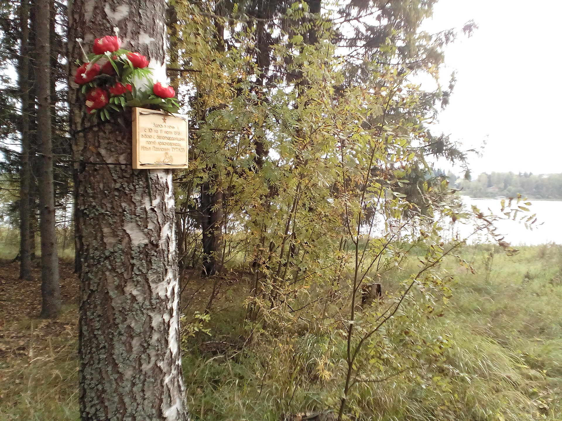 Monument on the site of the death of I.P. Tutaev